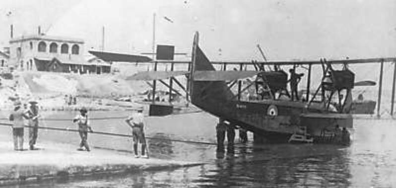 Photograph of a Felixstowe F.3 flying boat at Kalafrana, Malta.